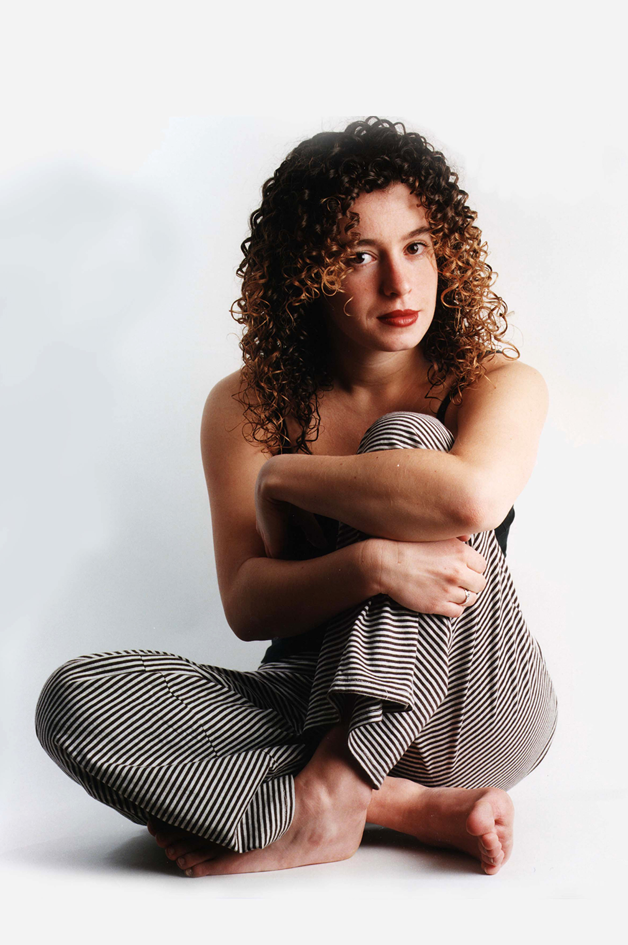 The cover of Kate's first solo album "Hourglass". Shot on a white colorama in her living room, Taken on medium format colour transparency and scanned.